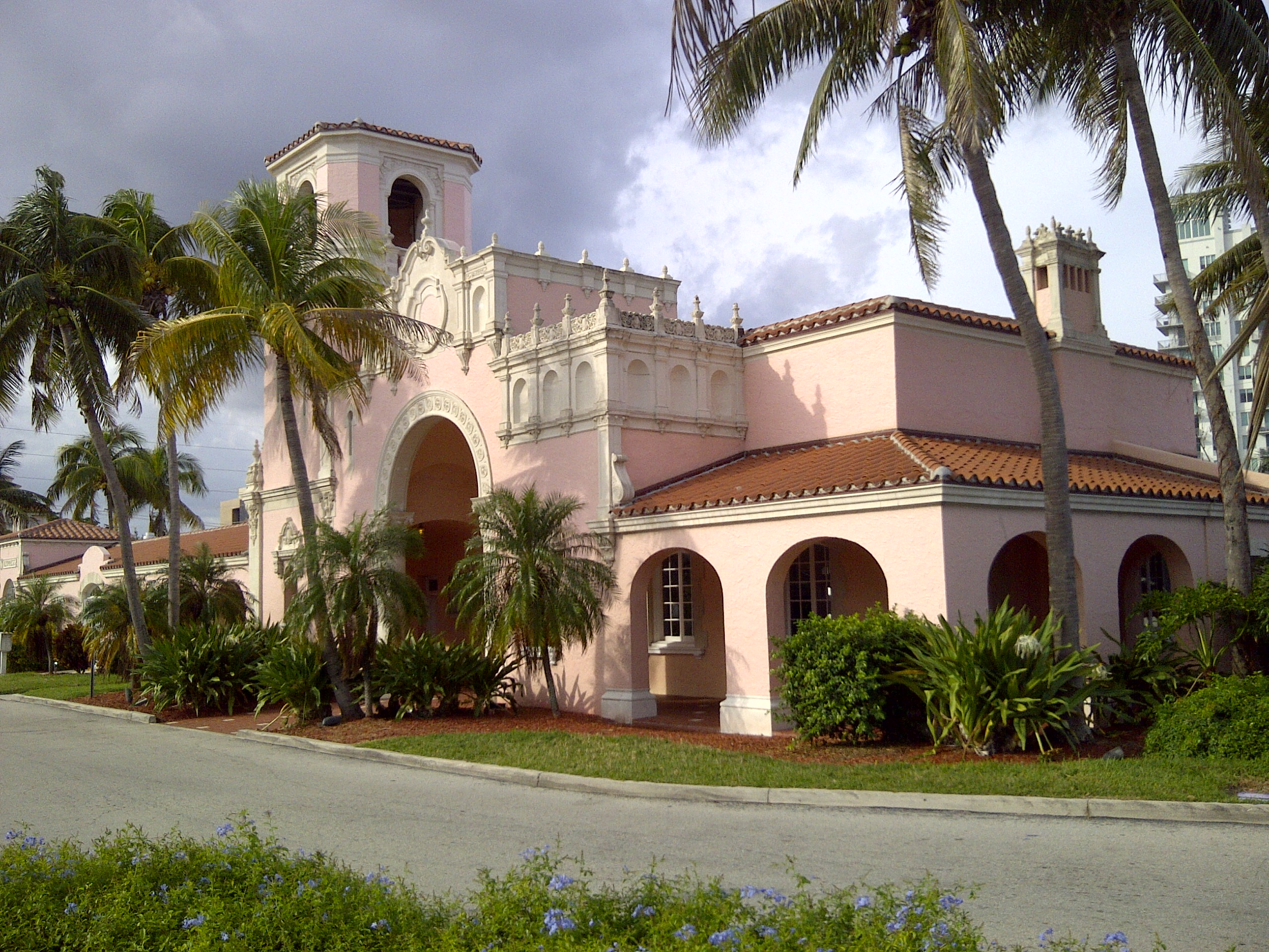 Northern view of West Palm Beach Seaboard Air Line Railway (now Amtrak) station